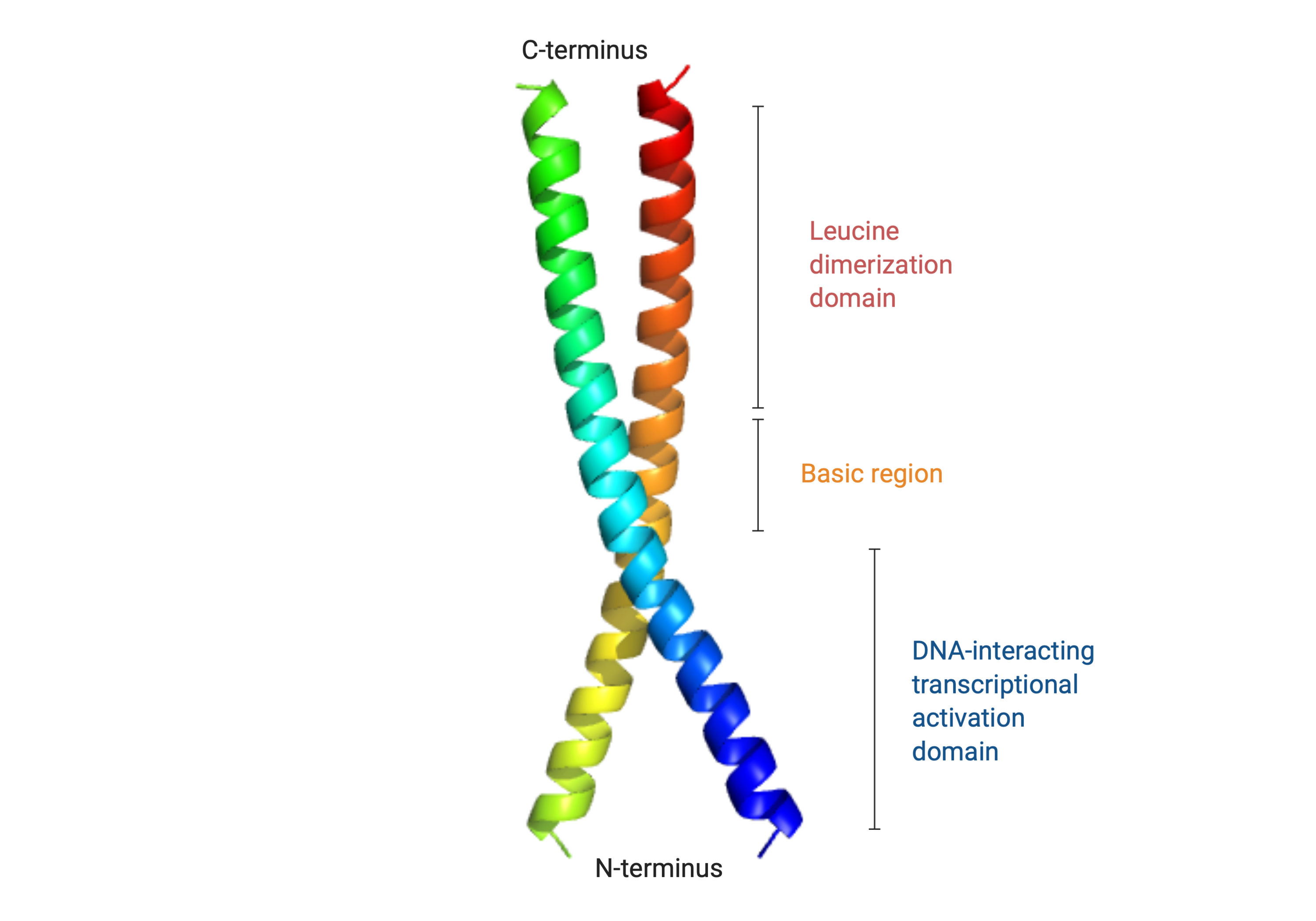 CHOP protein displays a classic example of a transcription factor with a leucine zipper (bZIP) domain